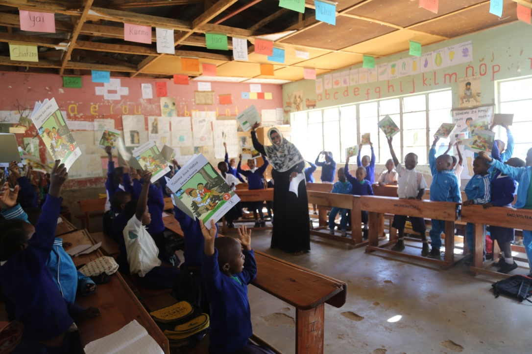 Shakira Maruzuku a teacher of Gangilonga Primary school shows of their books from USAID's Tusome Pamoja (Let's read together) project. Photo Credit USAID Tanzania